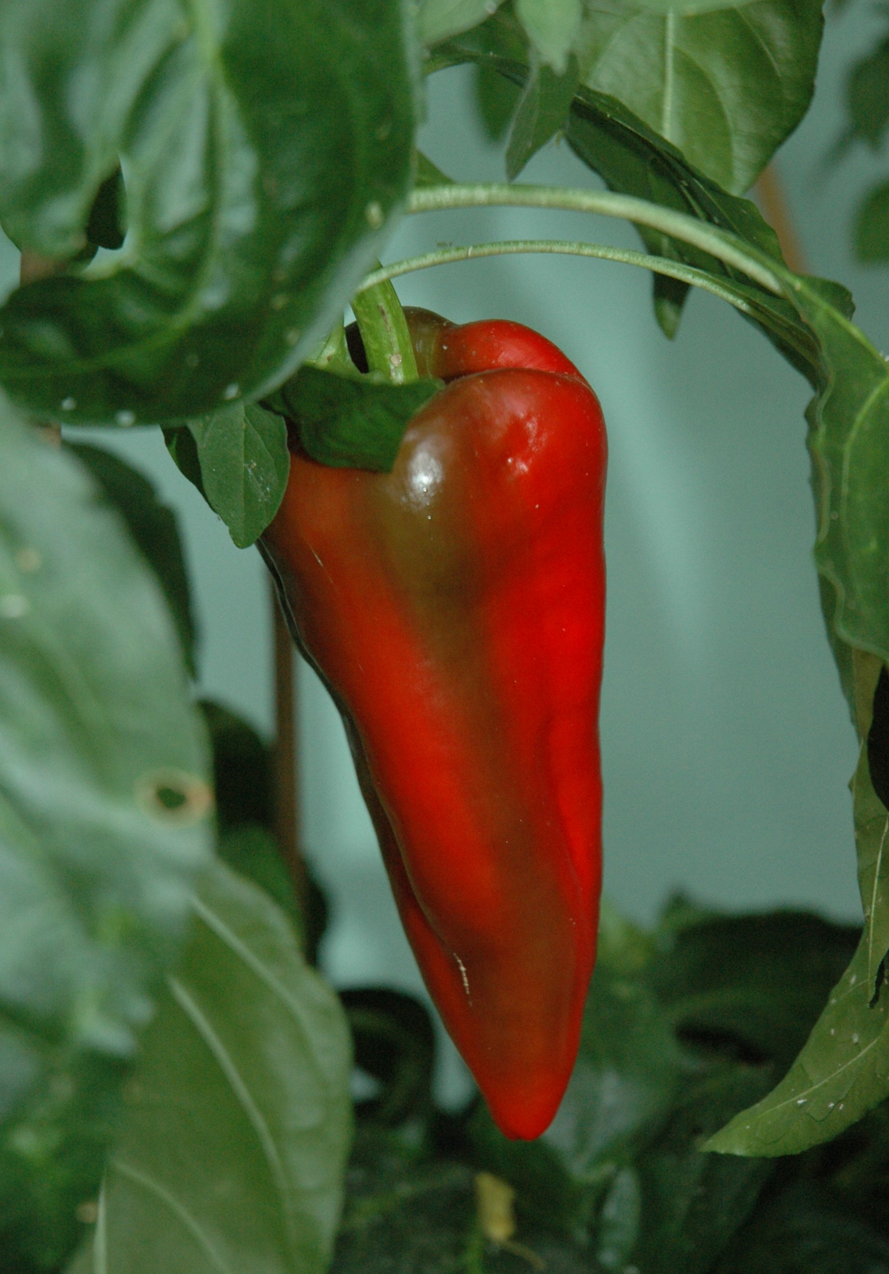 Fruit of Capsicum annuum cv. 'Beaver Dam'